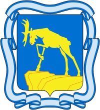 Miass (Chelyabinsk oblast), coat of arms (2002)